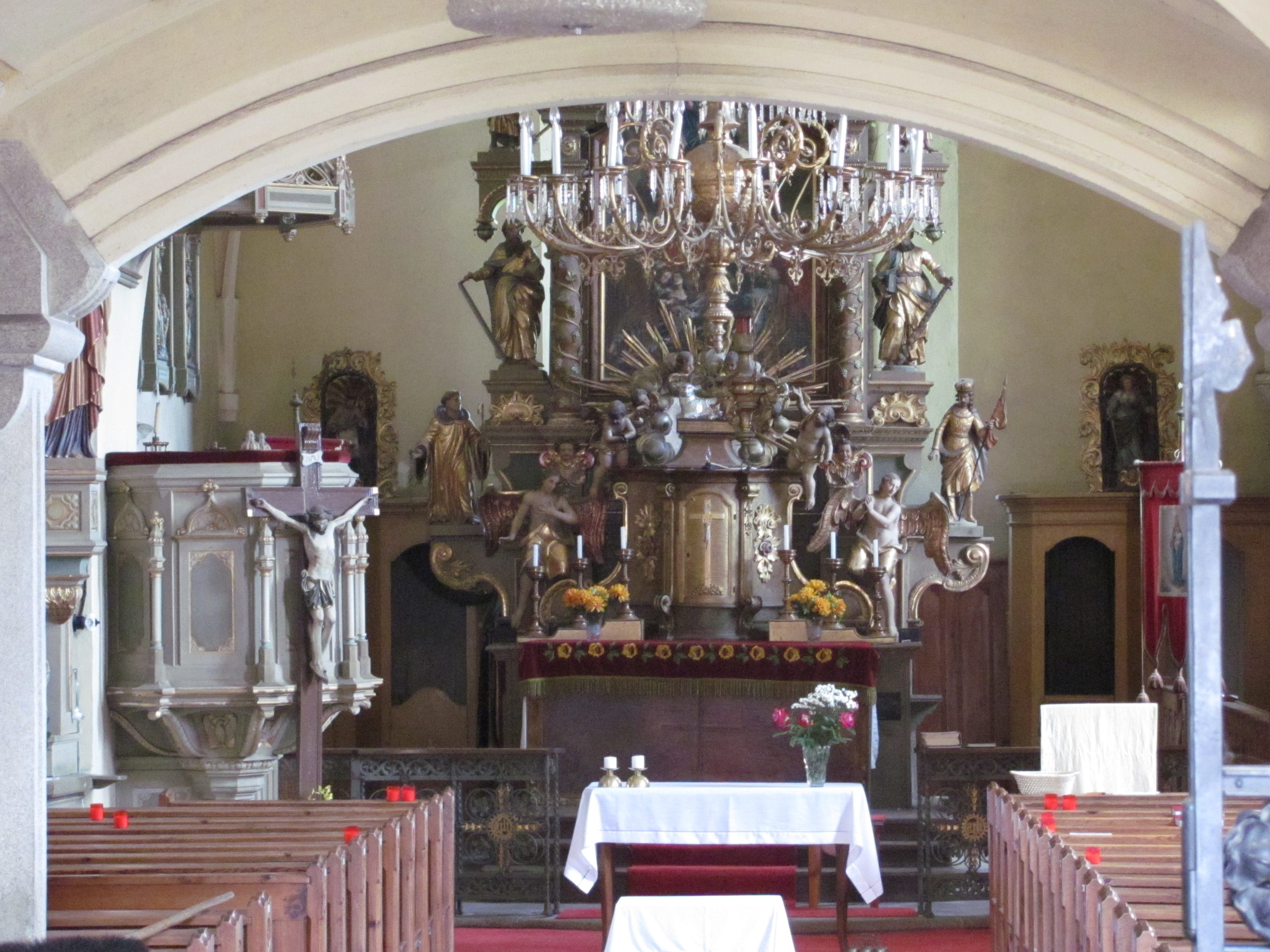 Church in Rožmitál na Šumavě, Český Krumlov District)